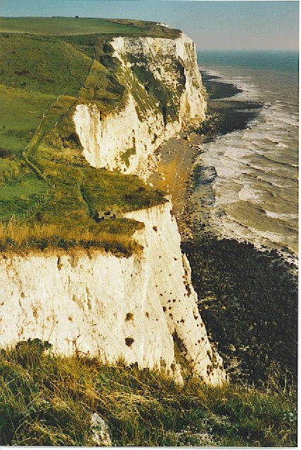 The White Cliffs of Dover. From the clifftops above Dover Harbour, looking east. The white cliffs are of chalk, and are one of Britain's best known landmarks.